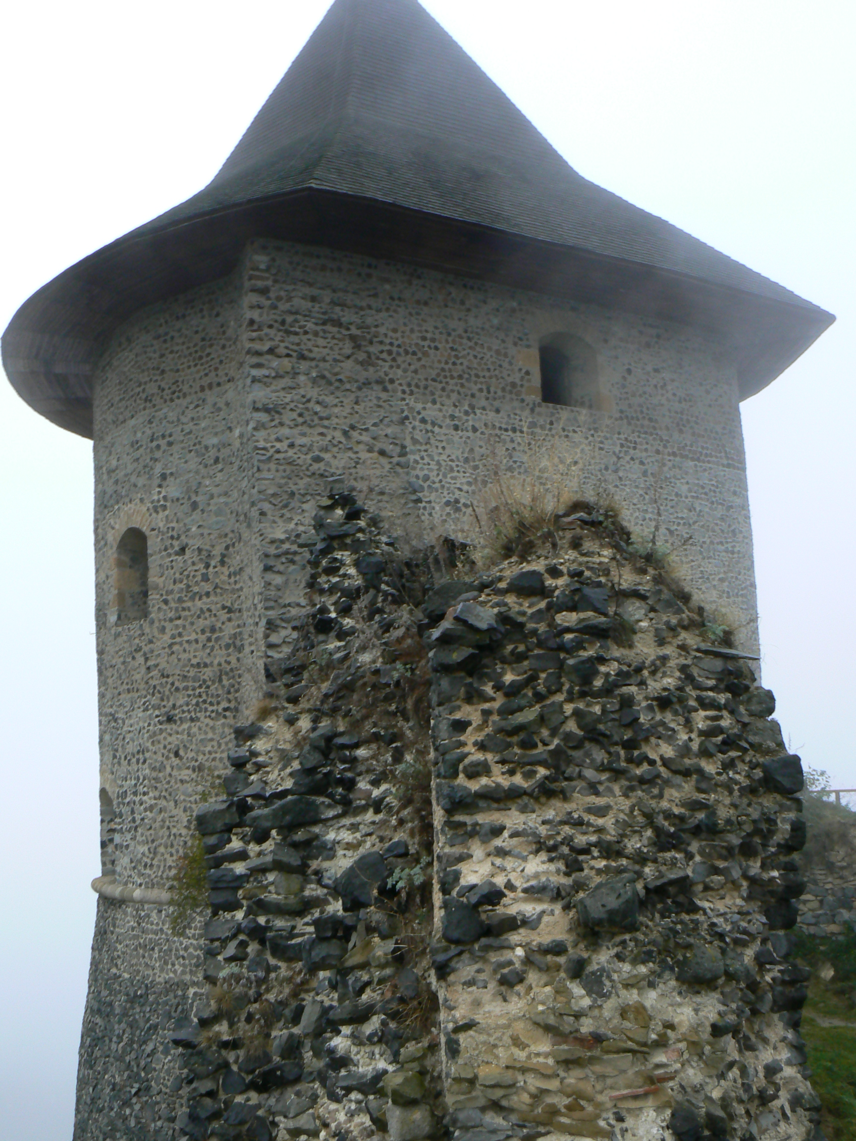 Western bastion of the Šomoška castle, located on the border between Slovakia and Hungary